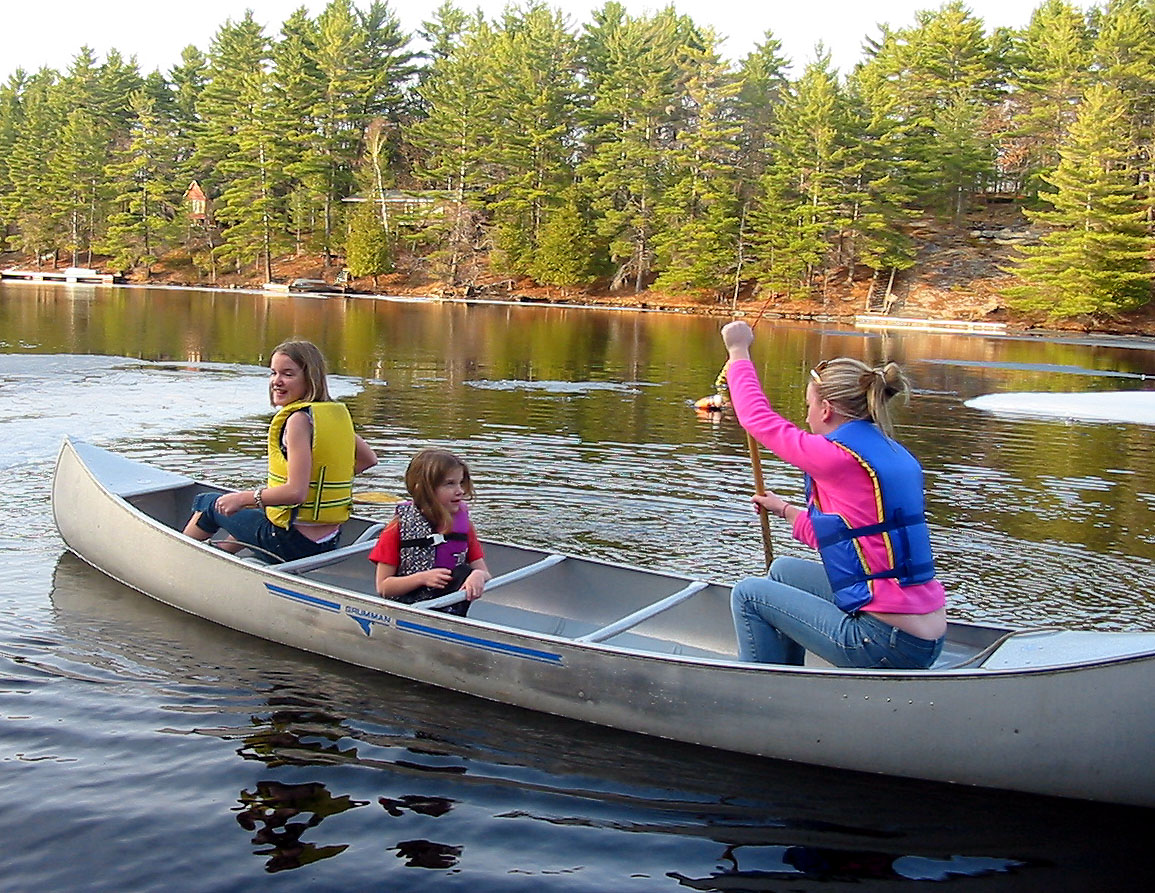 A group of girls setting off in a canoe on a lake. Taken in Muskoka, Ontario, Canada.IMG_5130